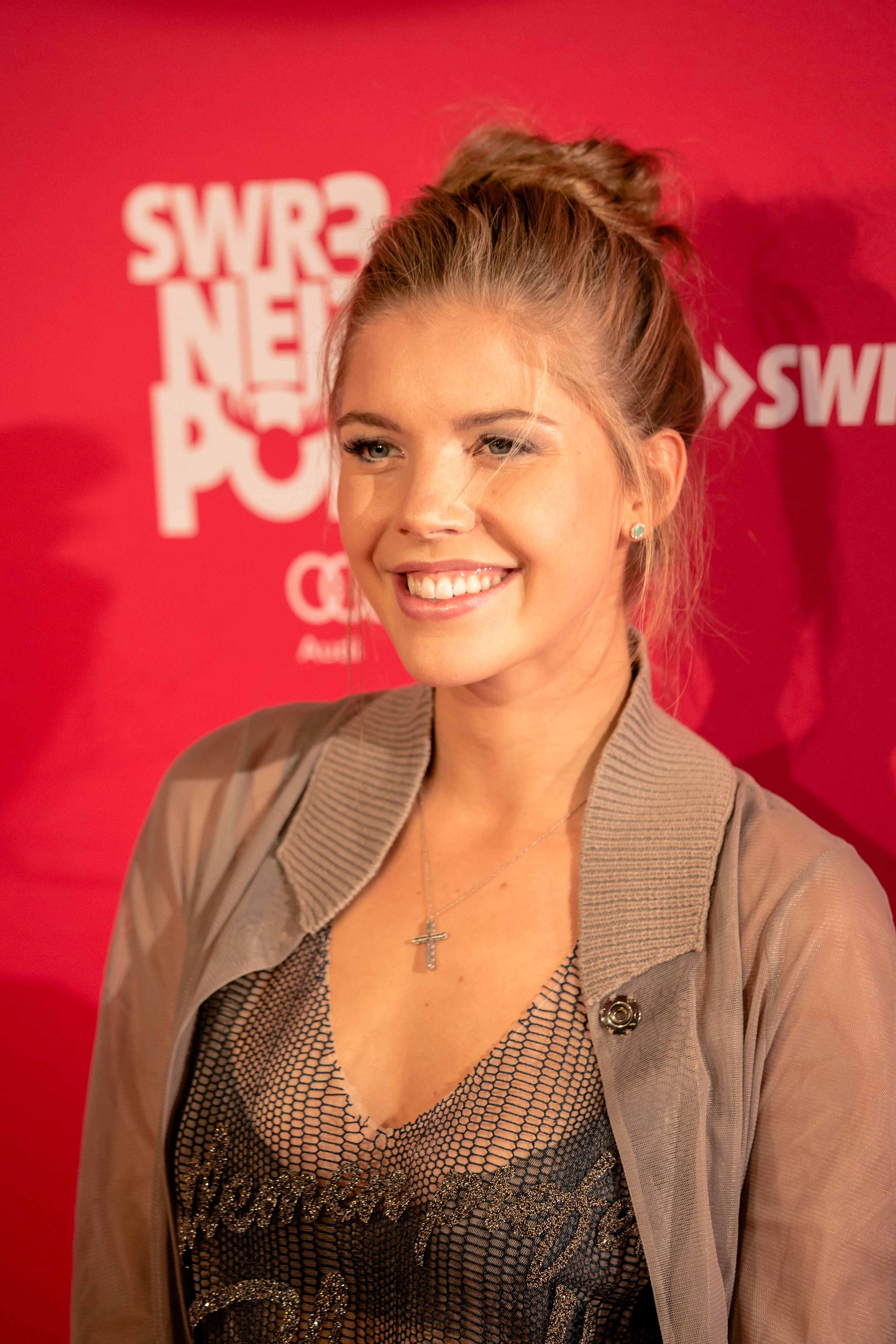 Austrian singer Victoria Swarovski at the SWR3 New Pop Festival 2017